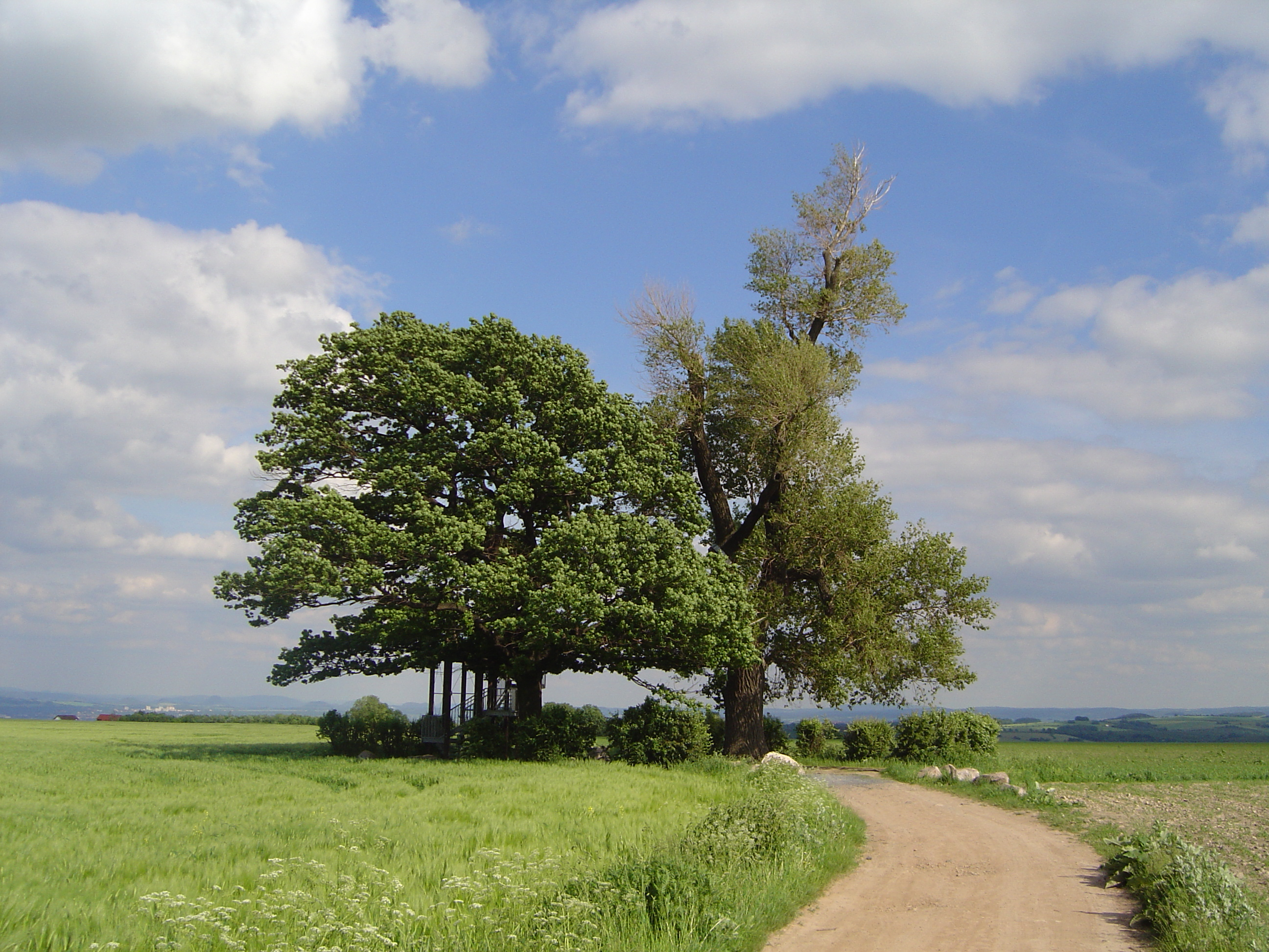 An ancient Tree called "Babisnauer Pappel" near Dresden/Germany